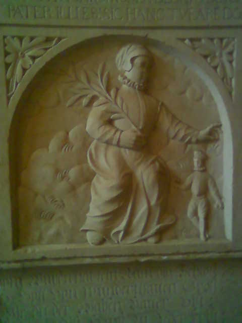 Herold figur Waisenberg